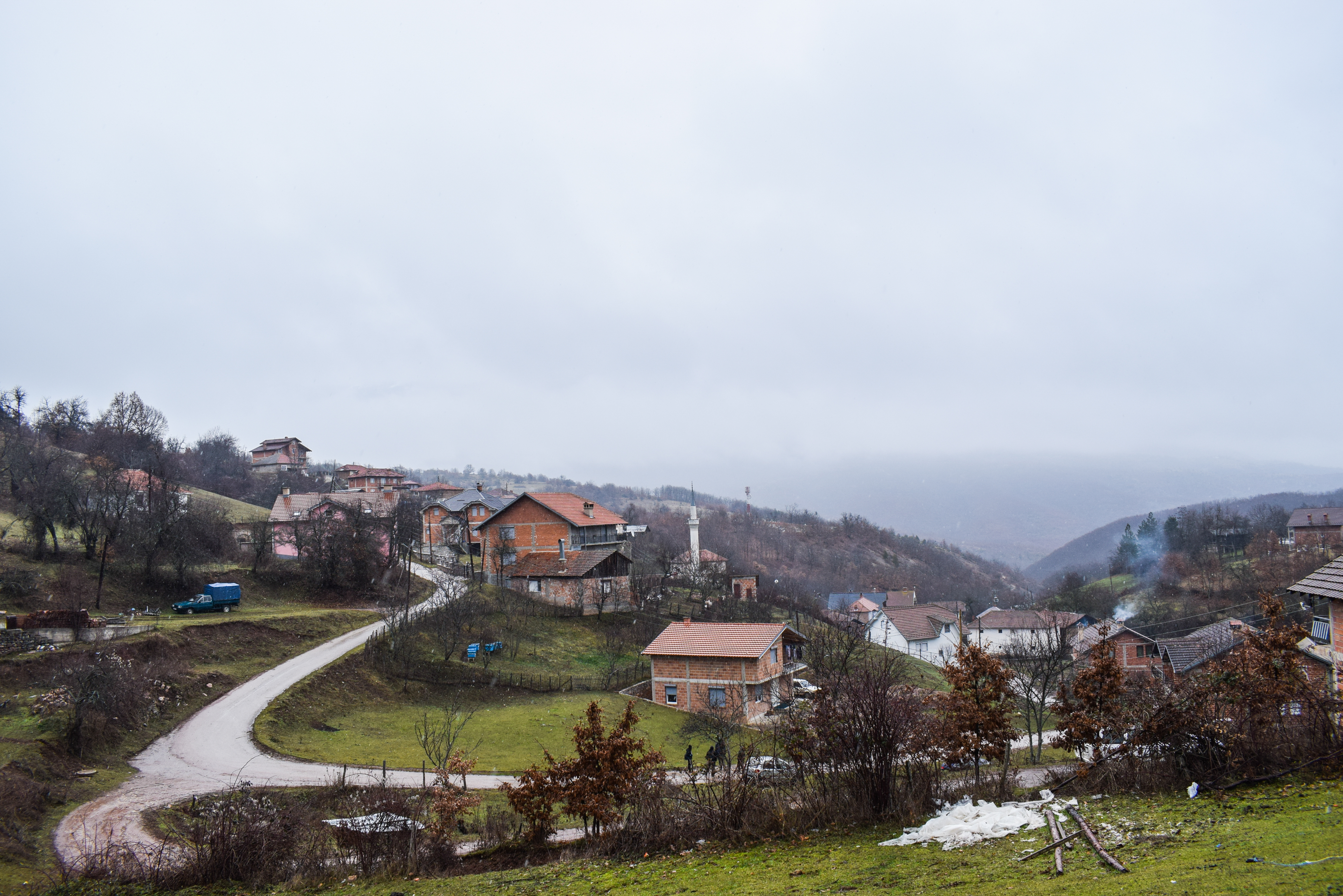 Bogovica, Struga (Winter)